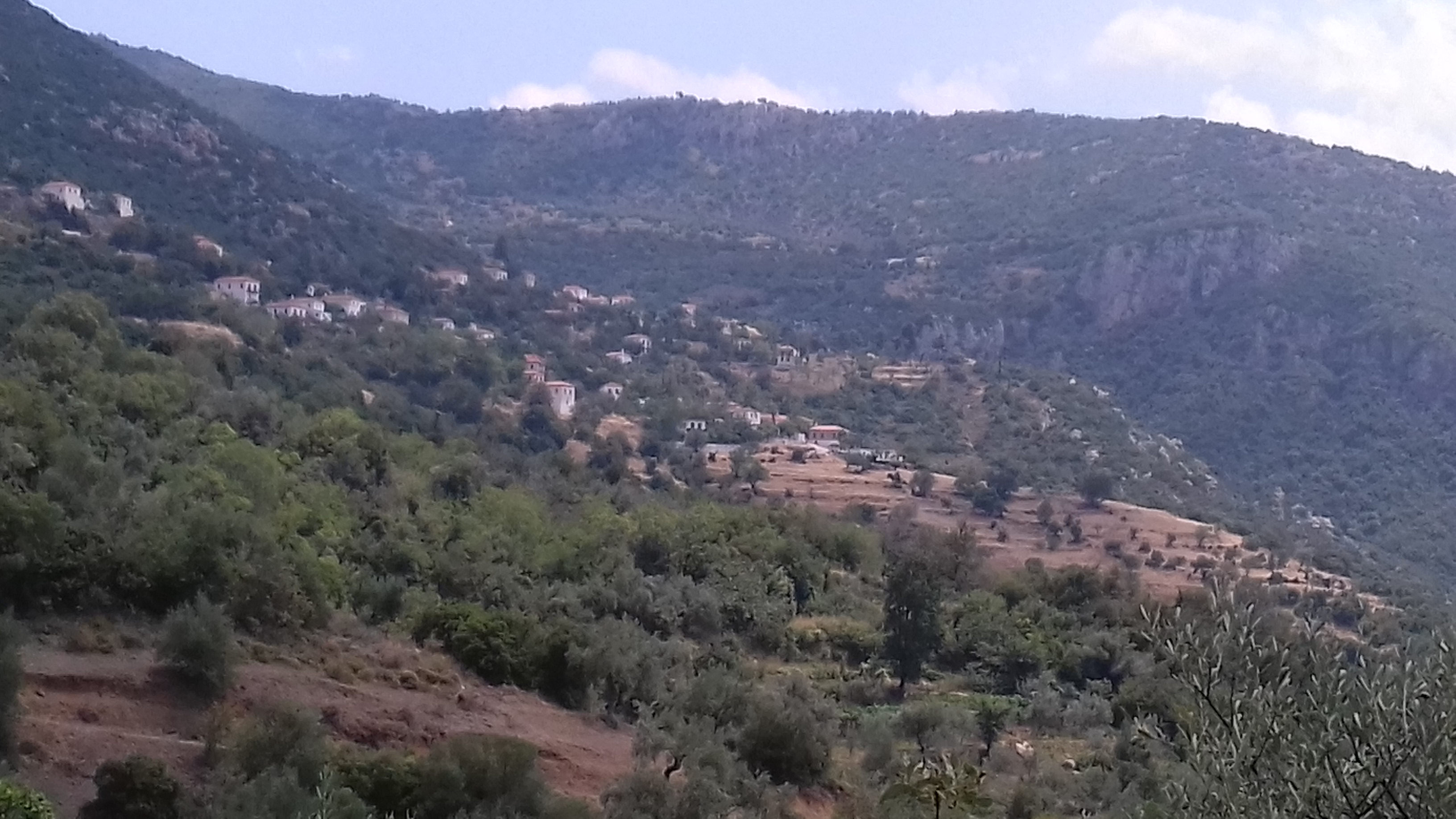 Oreino Korakovouni, village in Arcadia Greece